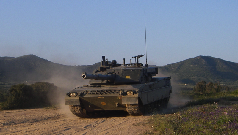 Italian Army Ariete main battle tank during a training exercise